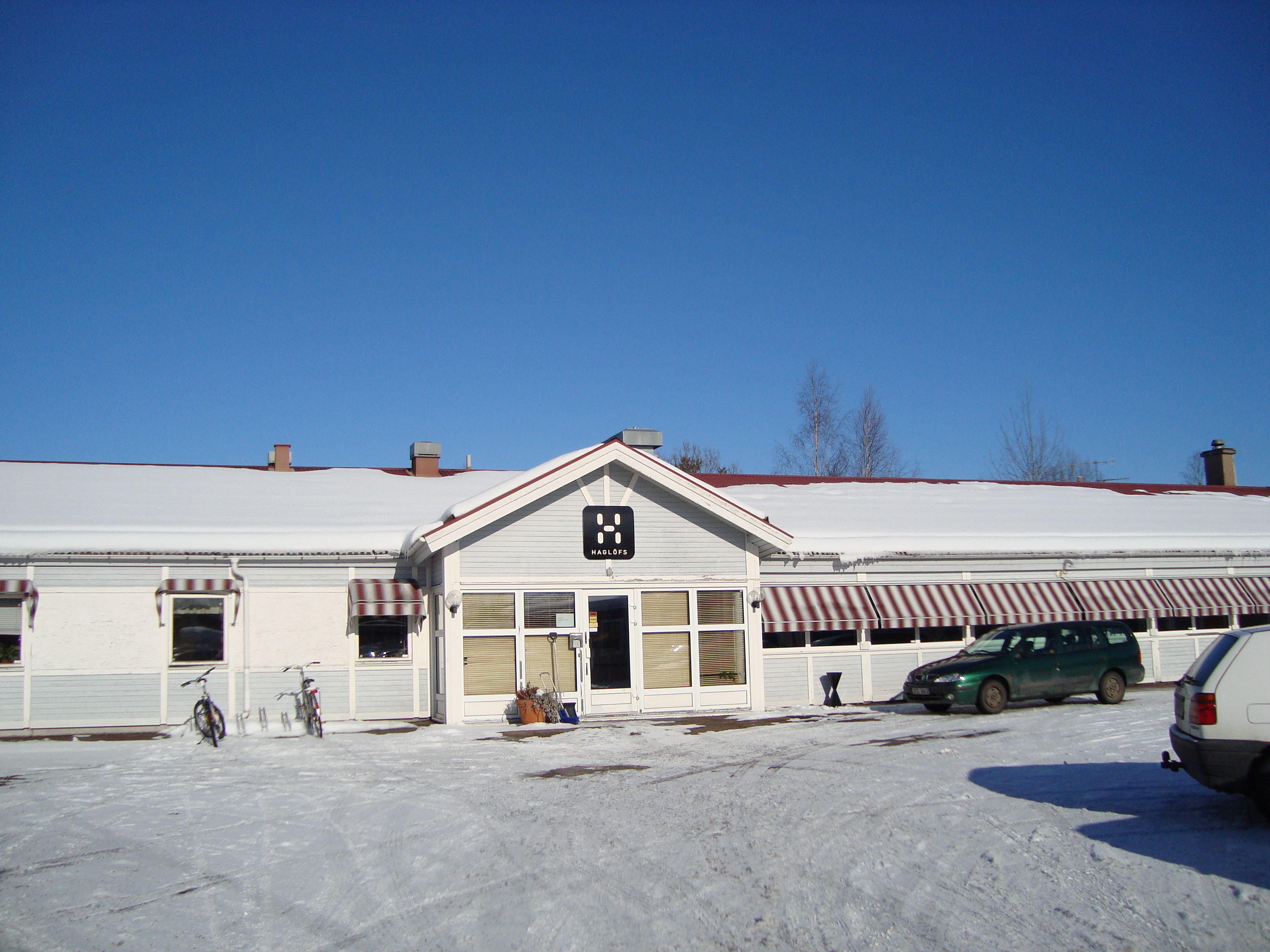 Office of outdoor clothing company Haglöfs, Avesta, Sweden